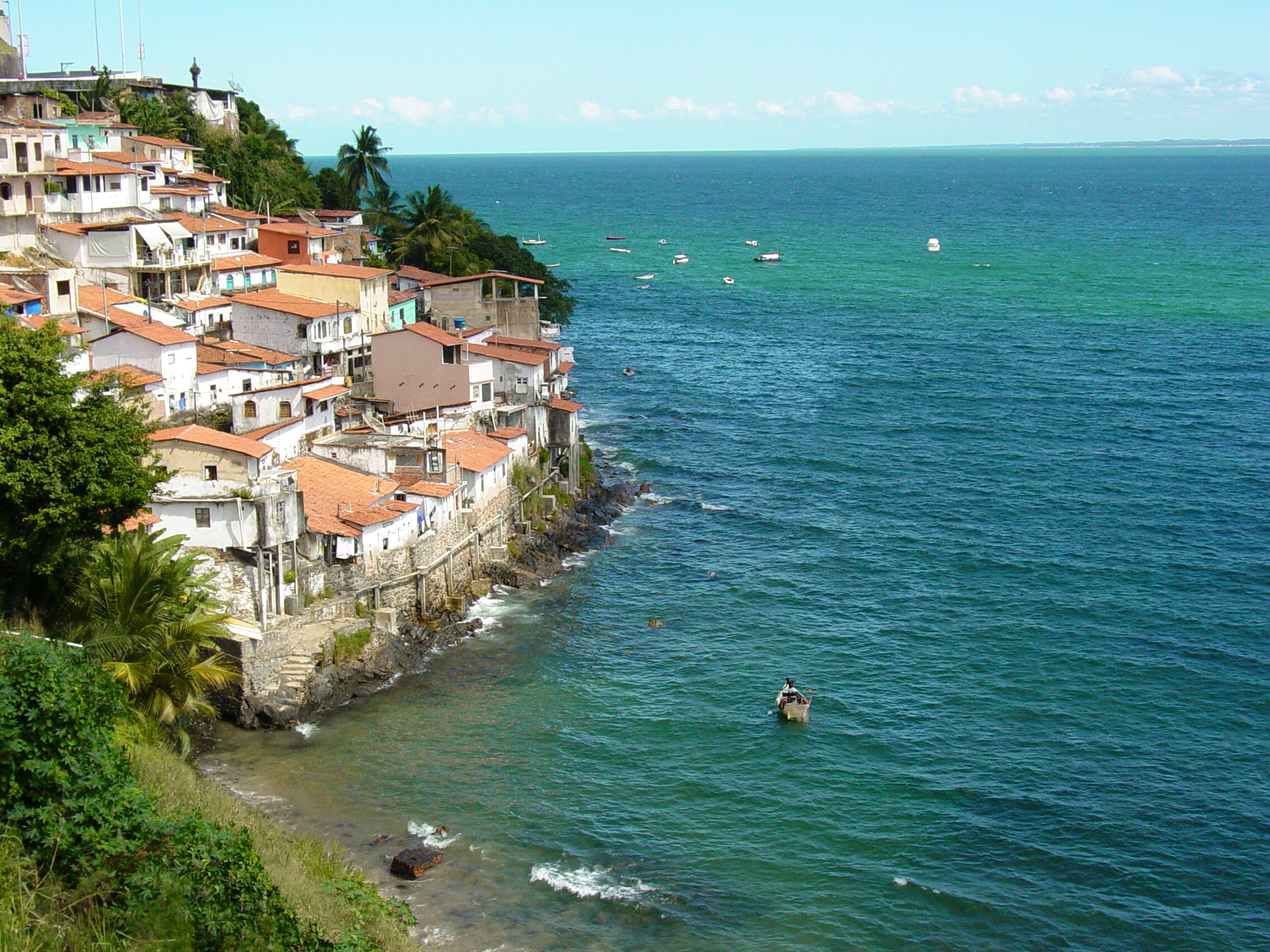 Fishing village along the coast near Salvador, Bahia state, Brazil. July 2006.